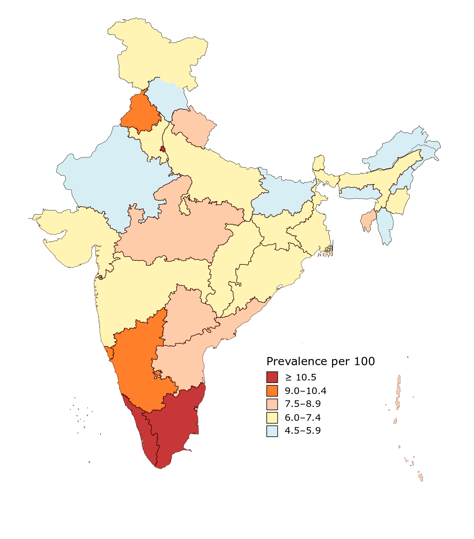 Prevalence of diabetes in Indian states in 2016. Data source